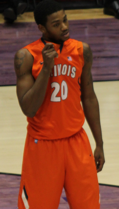 Myke Henry at Welsh-Ryan Arena in Evanston, Illinois on January 4, 2012.